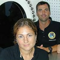 Photo of aquanauts Jessica Meir and Paul Hill during the NEEMO 4 mission in September 2002.